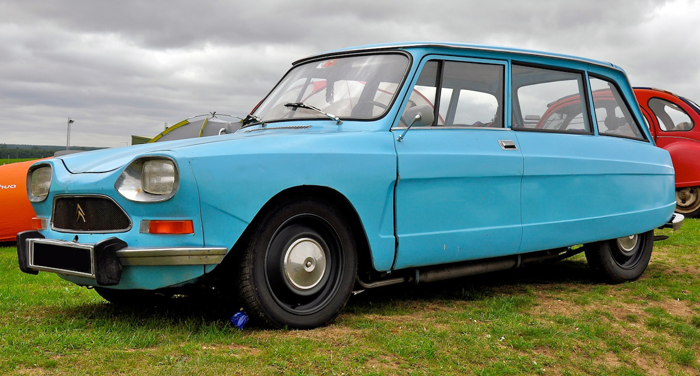 1973 Citroën Ami 8 Service at the Citroën 2CV 24 Hour Race at Snetterton, 2009